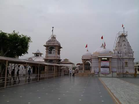 Vardayini Mata Tample of rupal Village